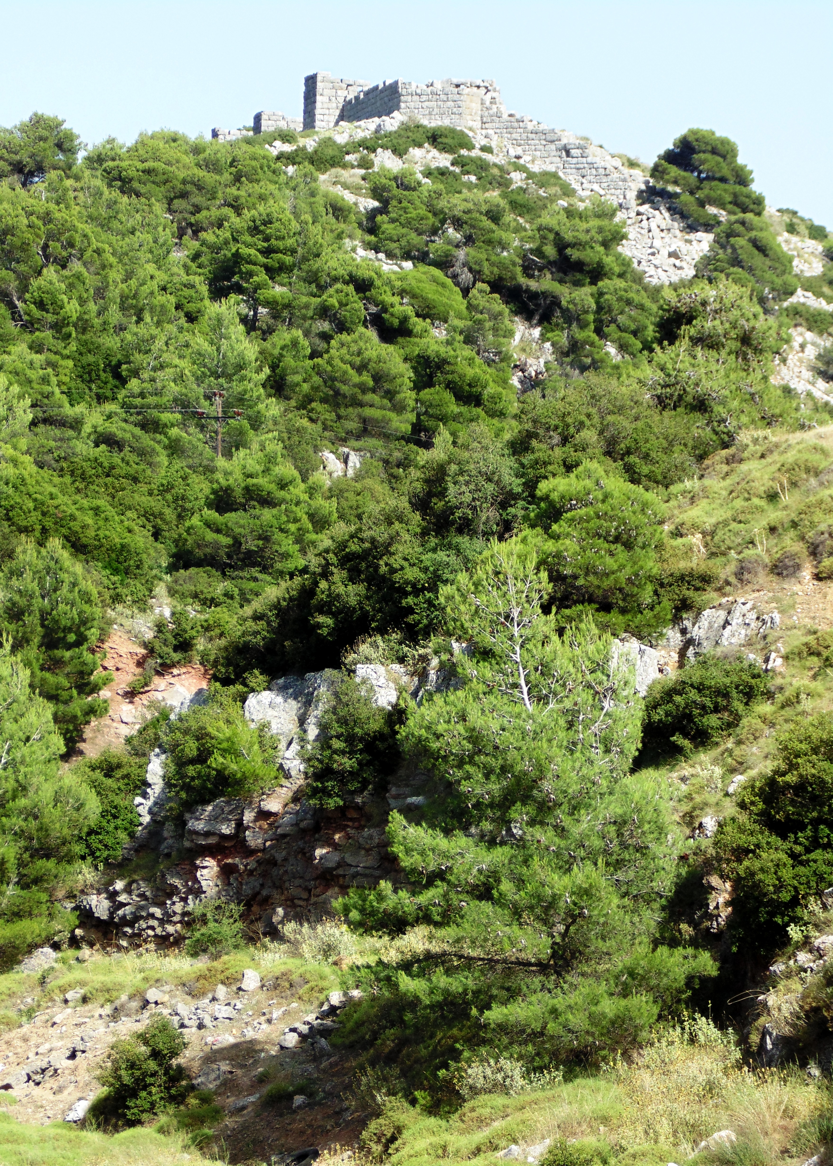 Eleutherai